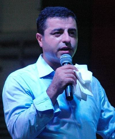 Selahattin Demirtaş, Turkish Deputy of Hakkari.